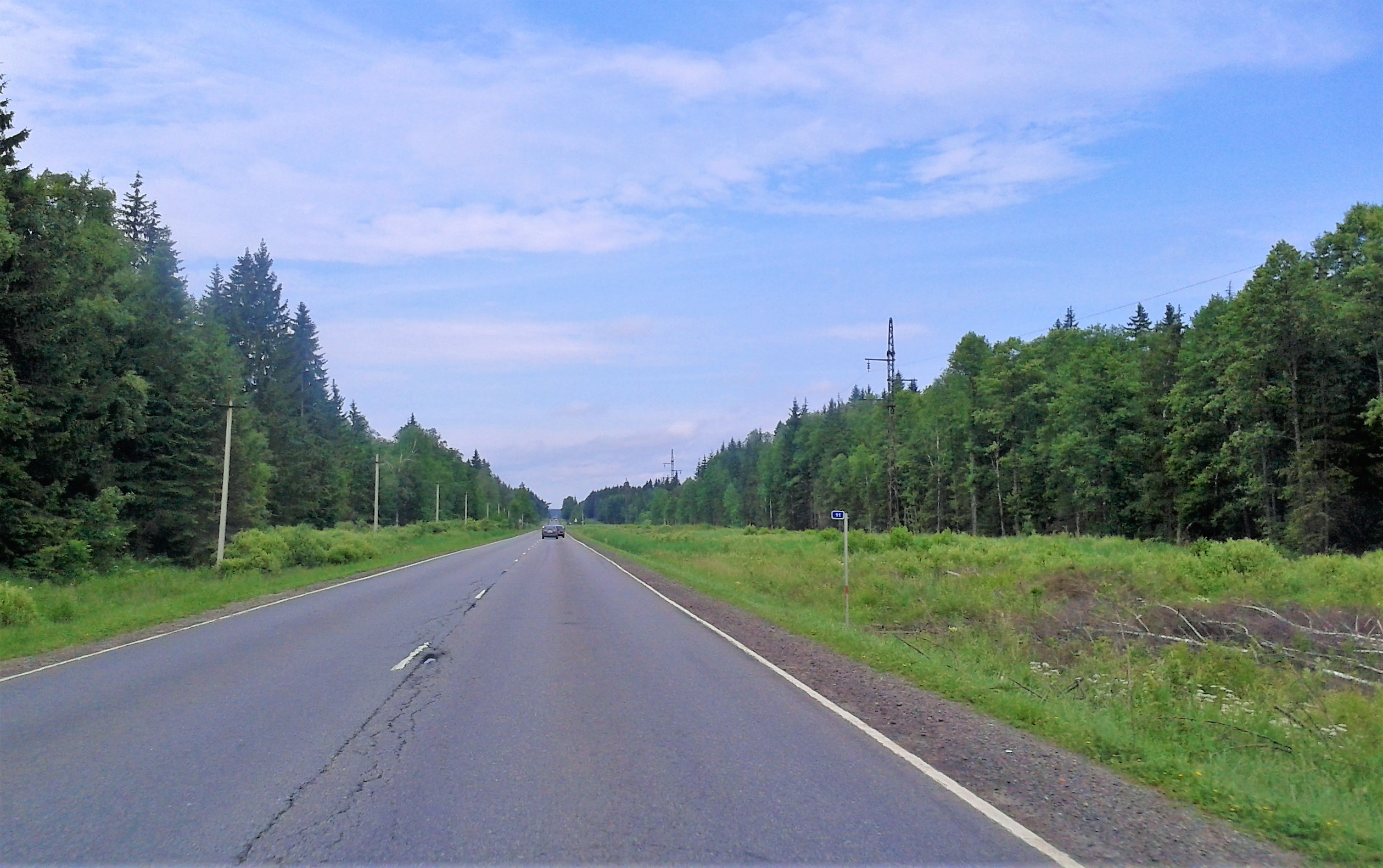 Ring-road А-107, Russia. There will the 5th launch complex of CKAD